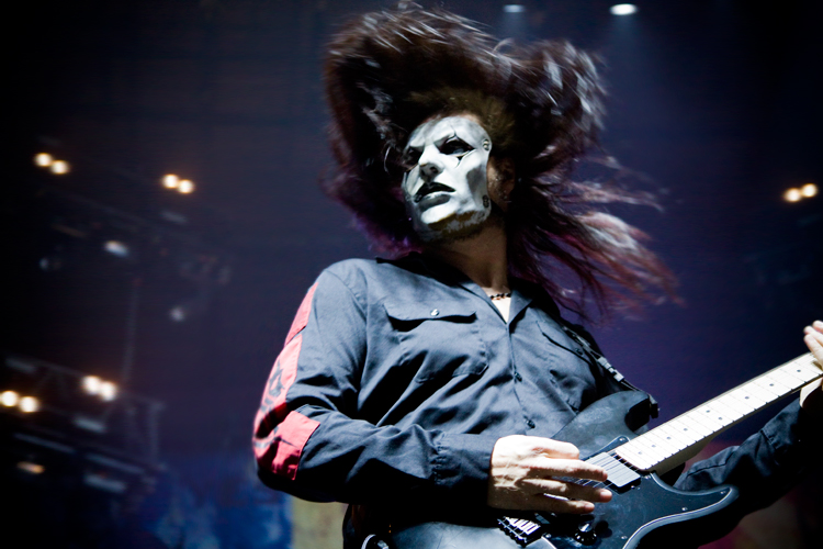 Guitarist Jim Root of Slipknot performing at the Allstate Arena in 2009.